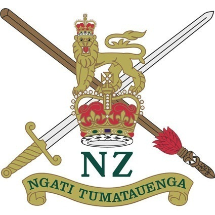 NZ Army crest